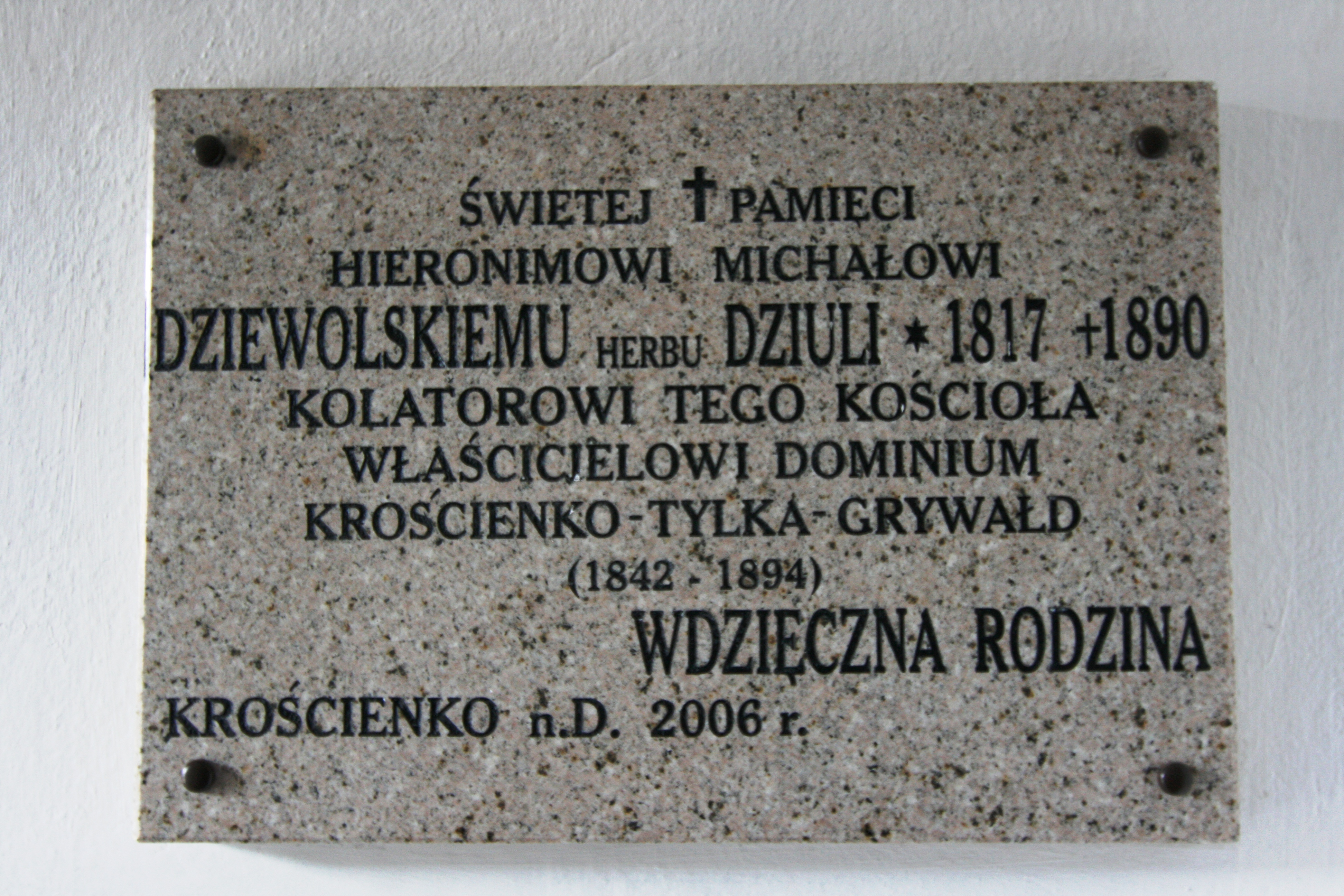 All Saints Church in Krościenko nad Dunajcem (Poland) – commemorative plaque in the church antrance 1